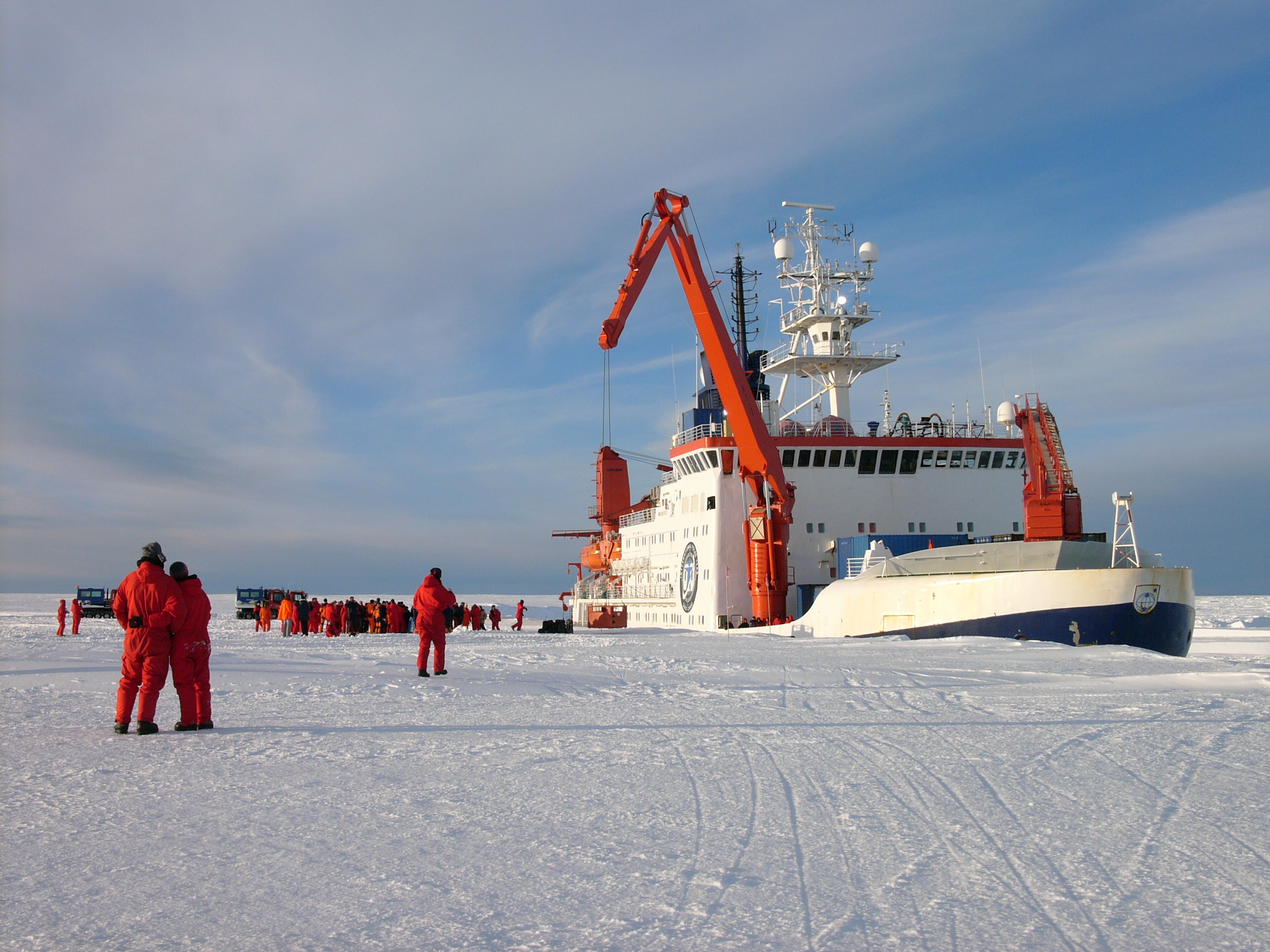 Research vessel POLARSTERN at the shelf ice edge of Atka Bay, Antarctica, supplying the German overwintering station NEUMAYER II; farewell with the overwintering team shortly before leaving to Prydz Bay (leg ANT-XXIII/9).